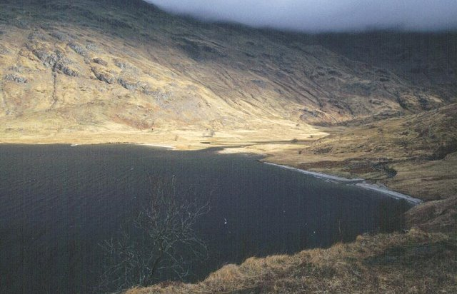 Ceann Loch Morar. The east end of Loch Morar, looking towards the ruin of Kinlochmorar.